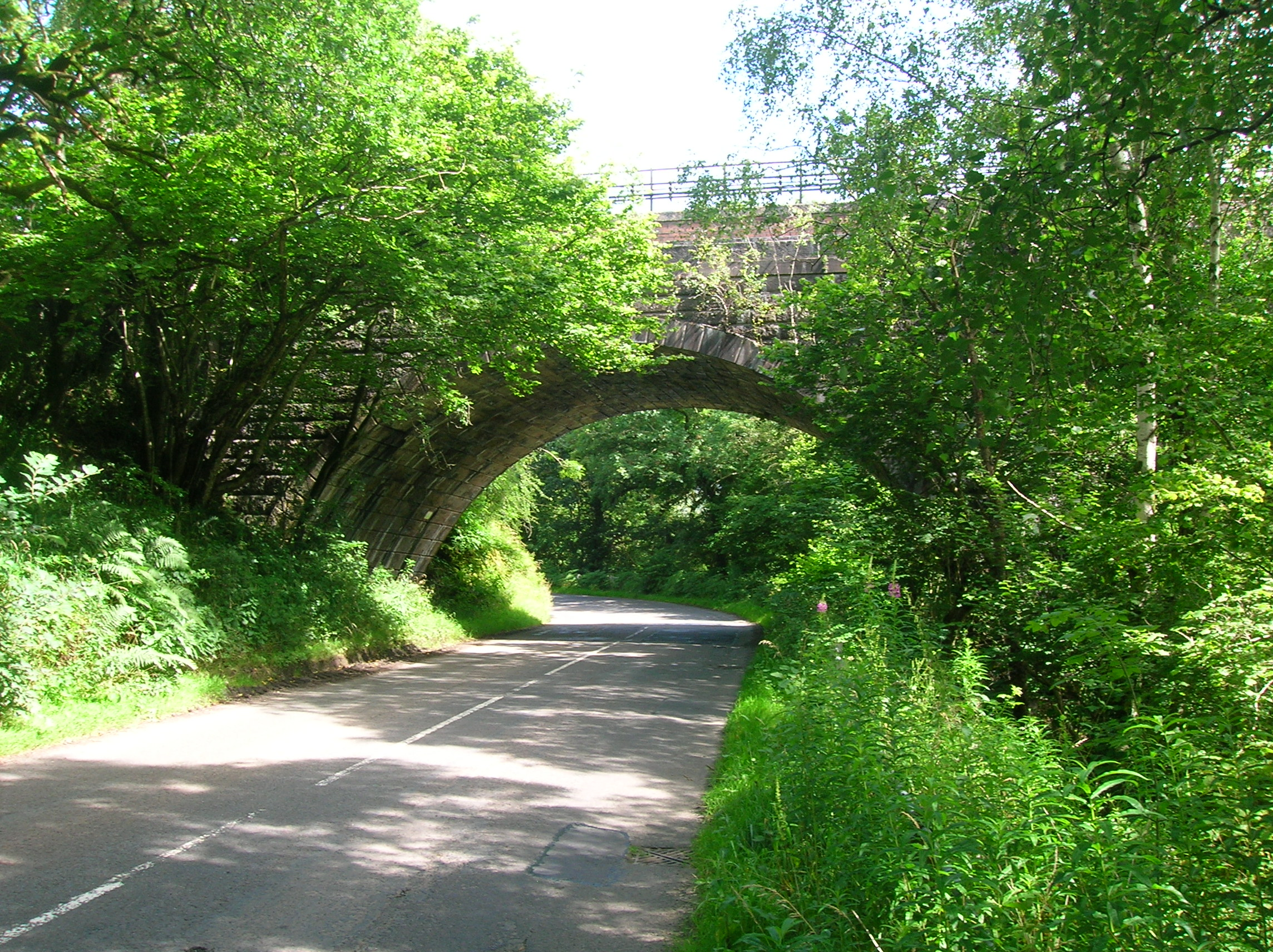 Carronhill railway viaduct, Carronbridge railway station site, Durisdeer, Dumfries & Galloway, Scotland